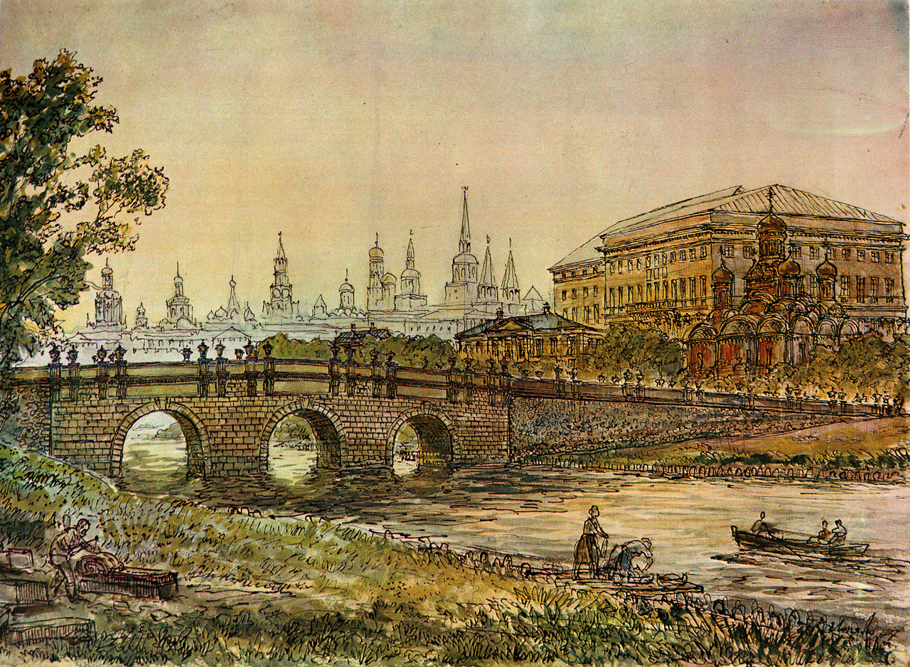 Kuznetsky most in the XVIII century